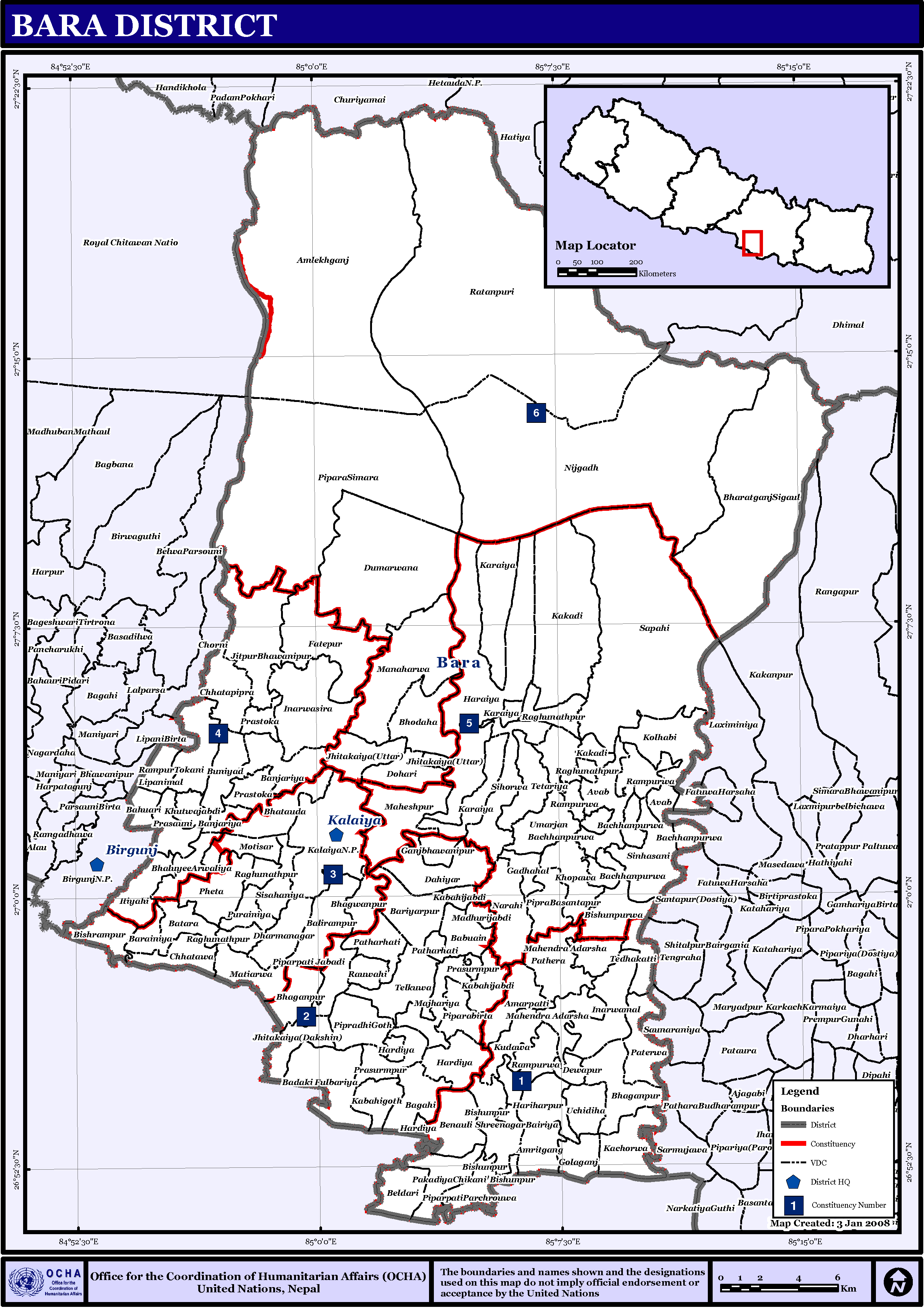 Map displaying Village Development Committees in Bara District, Nepal